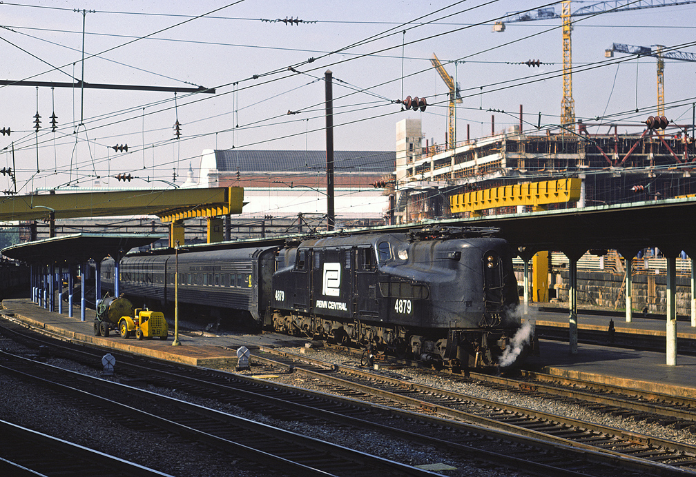 Penn Central 4879, ready to leave for New York City with the continuation of the Southern Railway's Crescent, in May 1976. Construction was for a visitor center in connection with the Bicentennial.